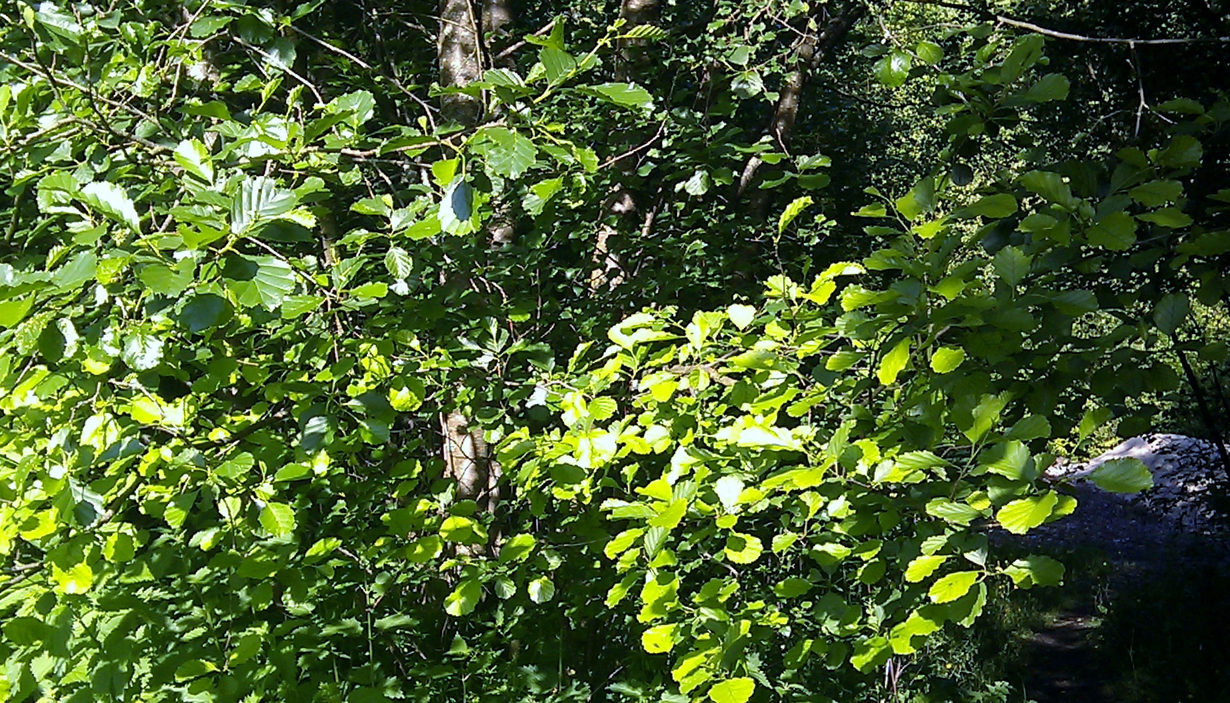 An Alder (Alnus glutinosa) branch was girdled before it came into leaf. The yellower leaves belong to this branch and the dark green were the untouched control. Spier's, Beith, North Ayrshire, Scotland.